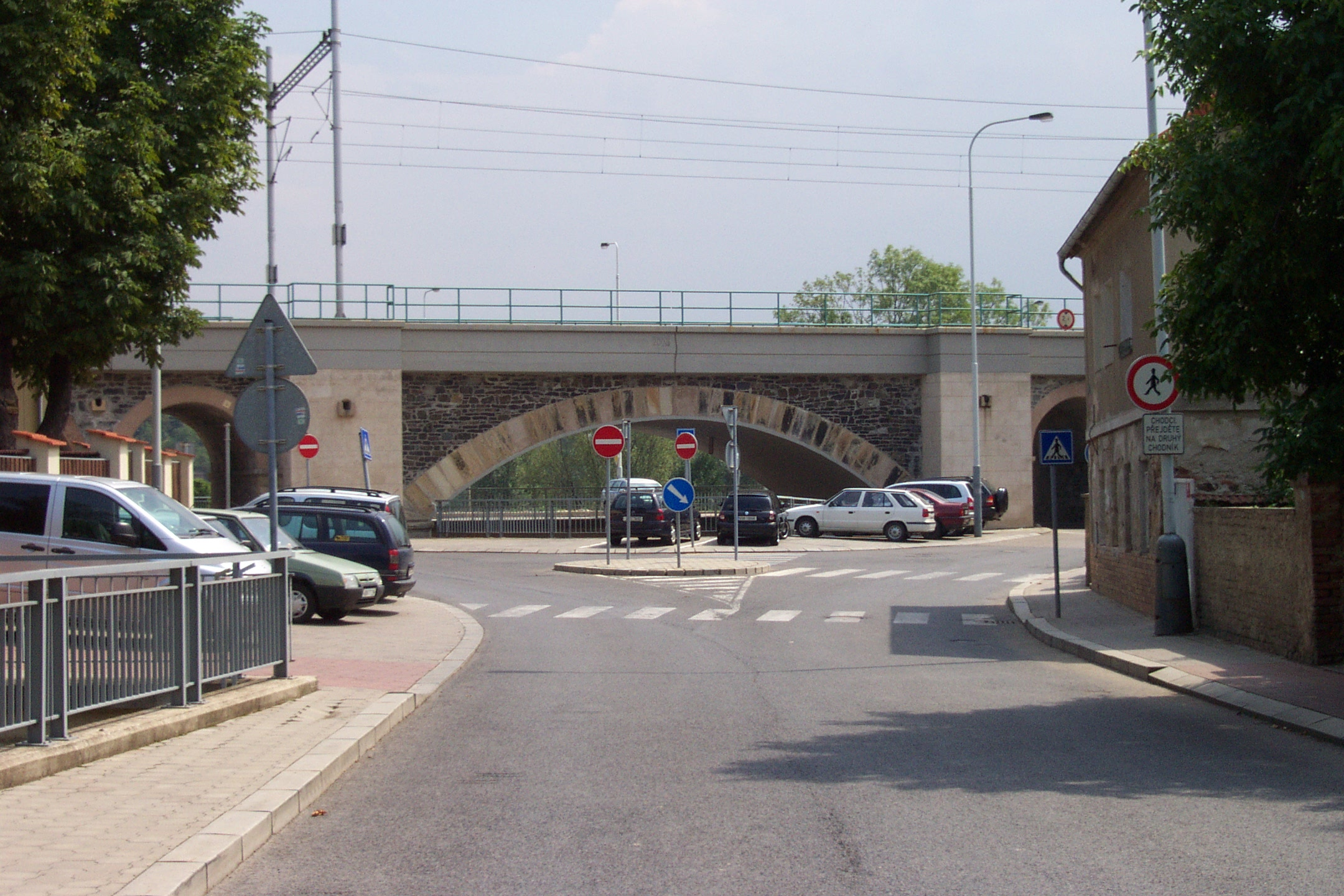 Bridge in Prague Dejvice and near Prague Lysolaje, CZ